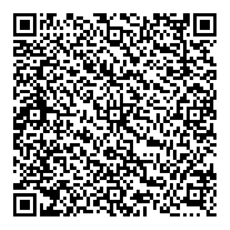 Dr.G Sambasiva Rao